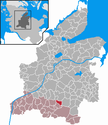 Locator maps of municipalities in Schleswig-Holstein - District Rendsburg-Eckernförde